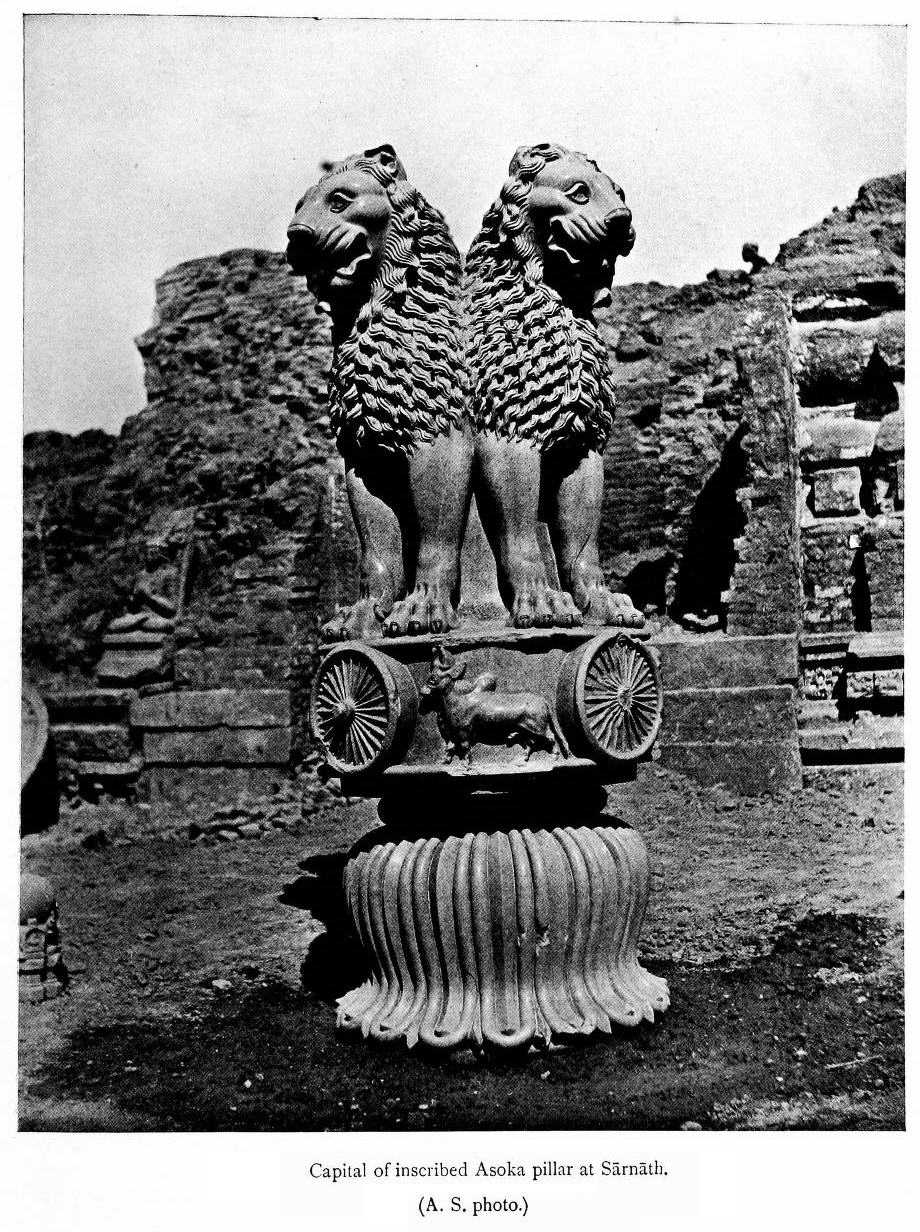 Ashoka lions at Sarnath